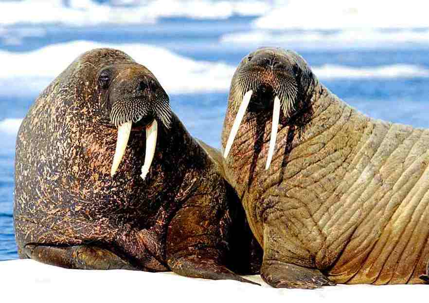 Atlantic walrus (Odobenus rosmarus rosmarus), Foxe Basin (Nunavut, Canada)